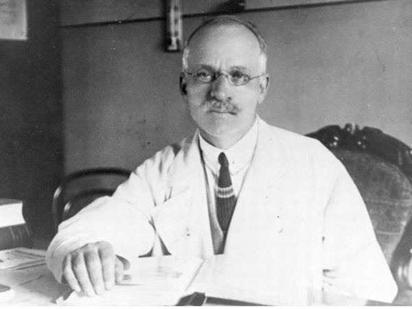 Alexiey V. Favorsky (1873-1930)